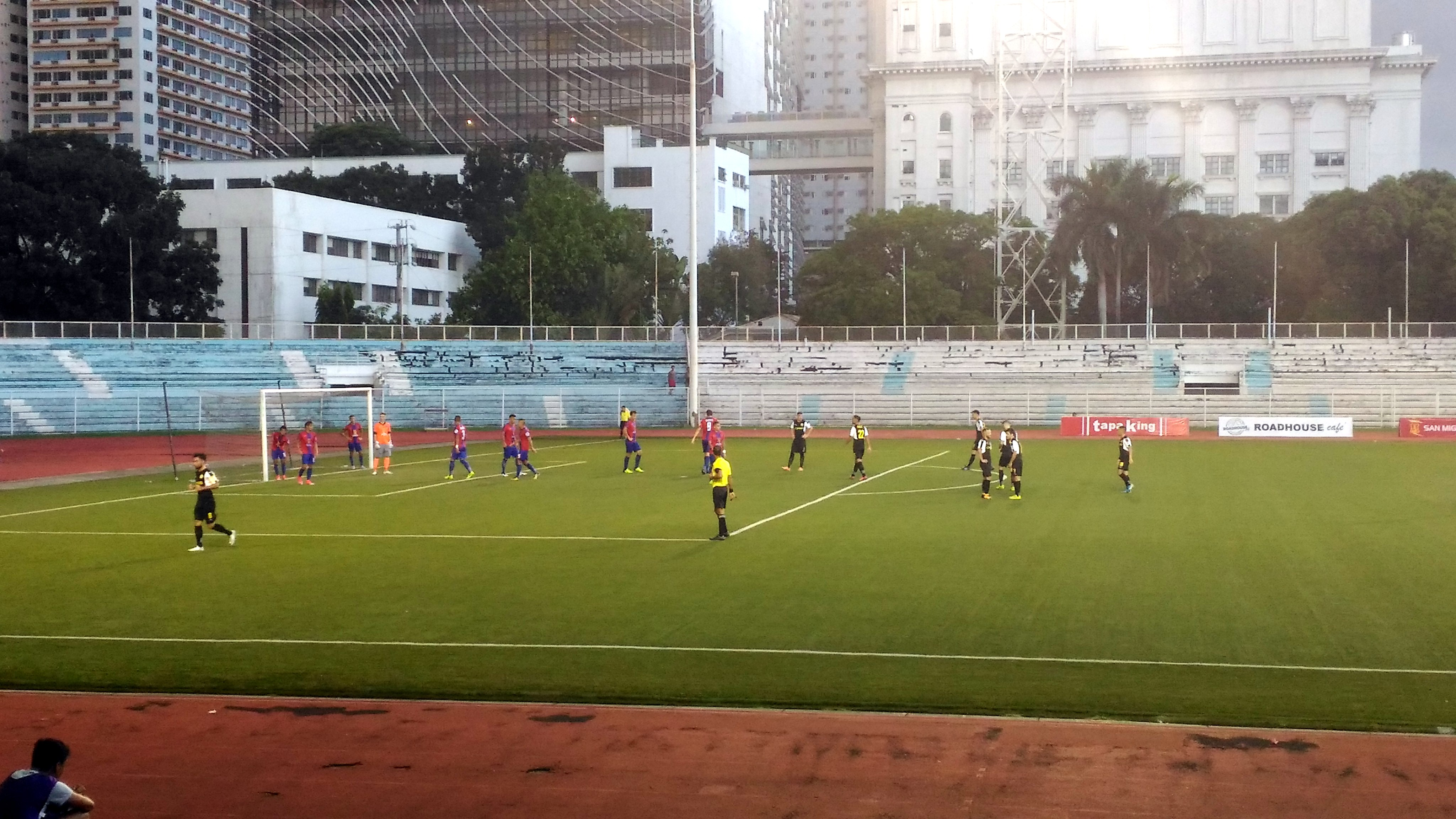 A view of the players in the Pitch at the Rizal Memorial Stadium Grand Stand during the game between the Davao Aguilas FC and Ceres Negros FC last Friday, September 16, 2017.